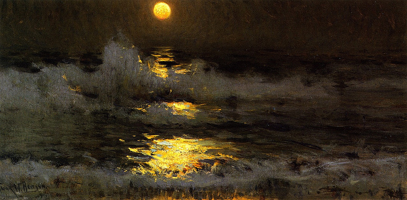 Moonlight (or Moonlight on the Waters; oil), 1981, by Frank Weston Benson